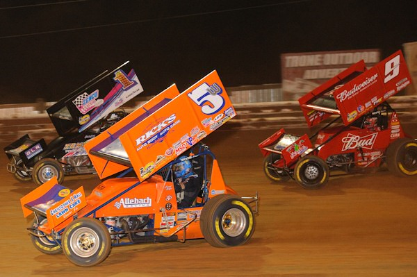 Lucas Wolfe leads the pack in World of Outlaws race at Williams Grove Speedway in 2010.